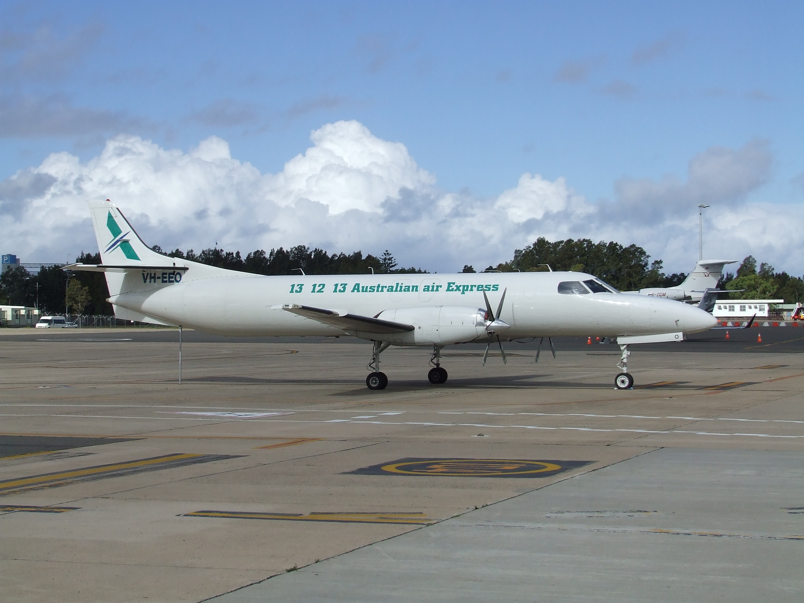 In 1997 Pel-Air took delivery of three Fairchild SA227-AT Expediters formerly operated by United Parcel Service (UPS). Registered VH-EEN, 'EEO and 'EEP, the three operated in the colours of Australian air Express throughout their time in Pel-Air service. A Pel-Air Fairchild Expediter in the colours of Australian air Express at Sydney Airport. Digital photo taken by YSSYguy on February 18 2007 & uploaded for use in article about Pel-Air.